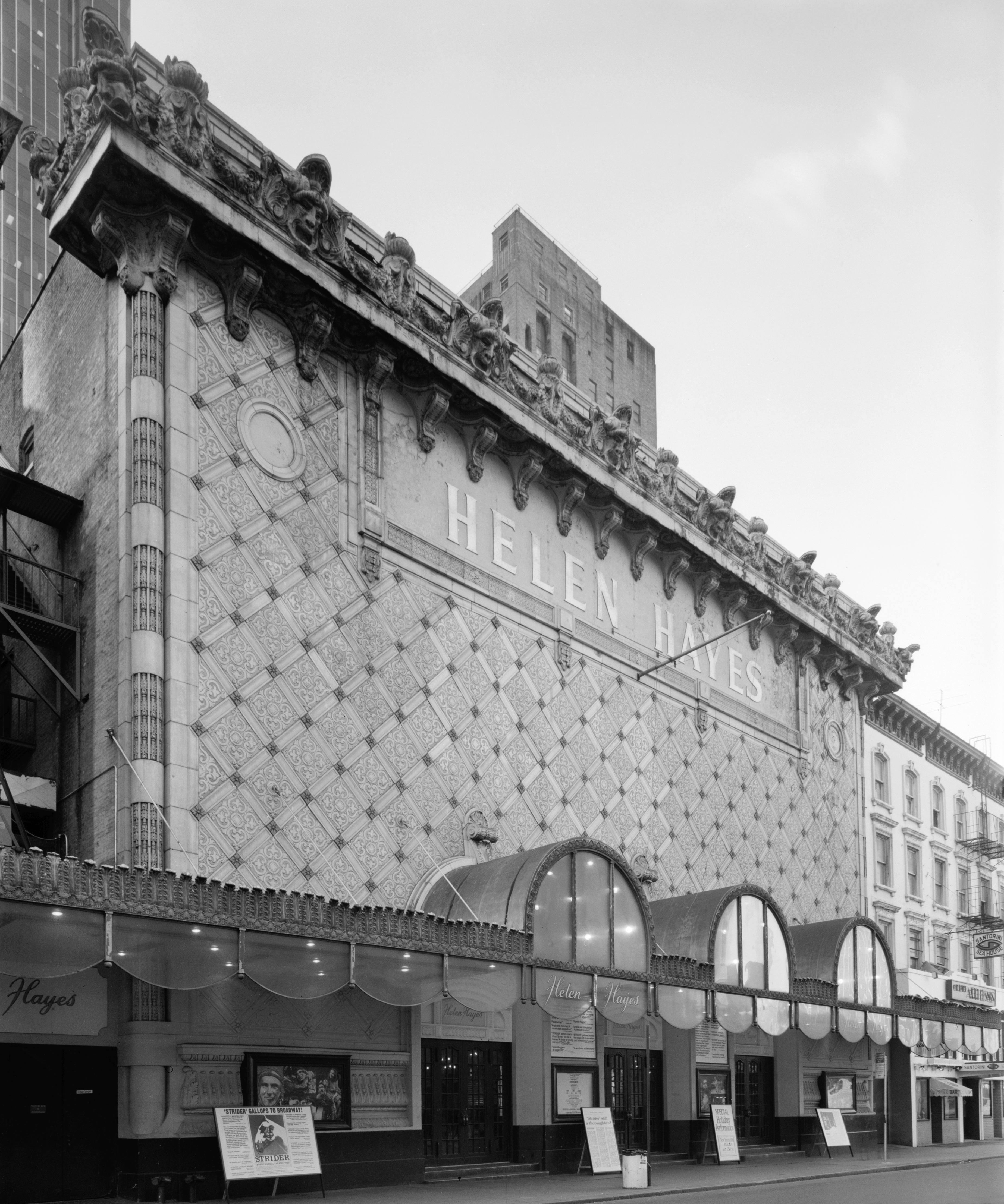 The Fulton Theatre, a New York City theatre that was demolished in 1982. "NORTH (FRONT) FACADE FROM EAST - Folies Bergere Theatre, 210 West Forty-sixth Street, New York, New York County, NY"